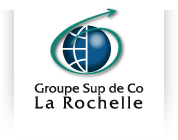 Logo La Rochelle Business School